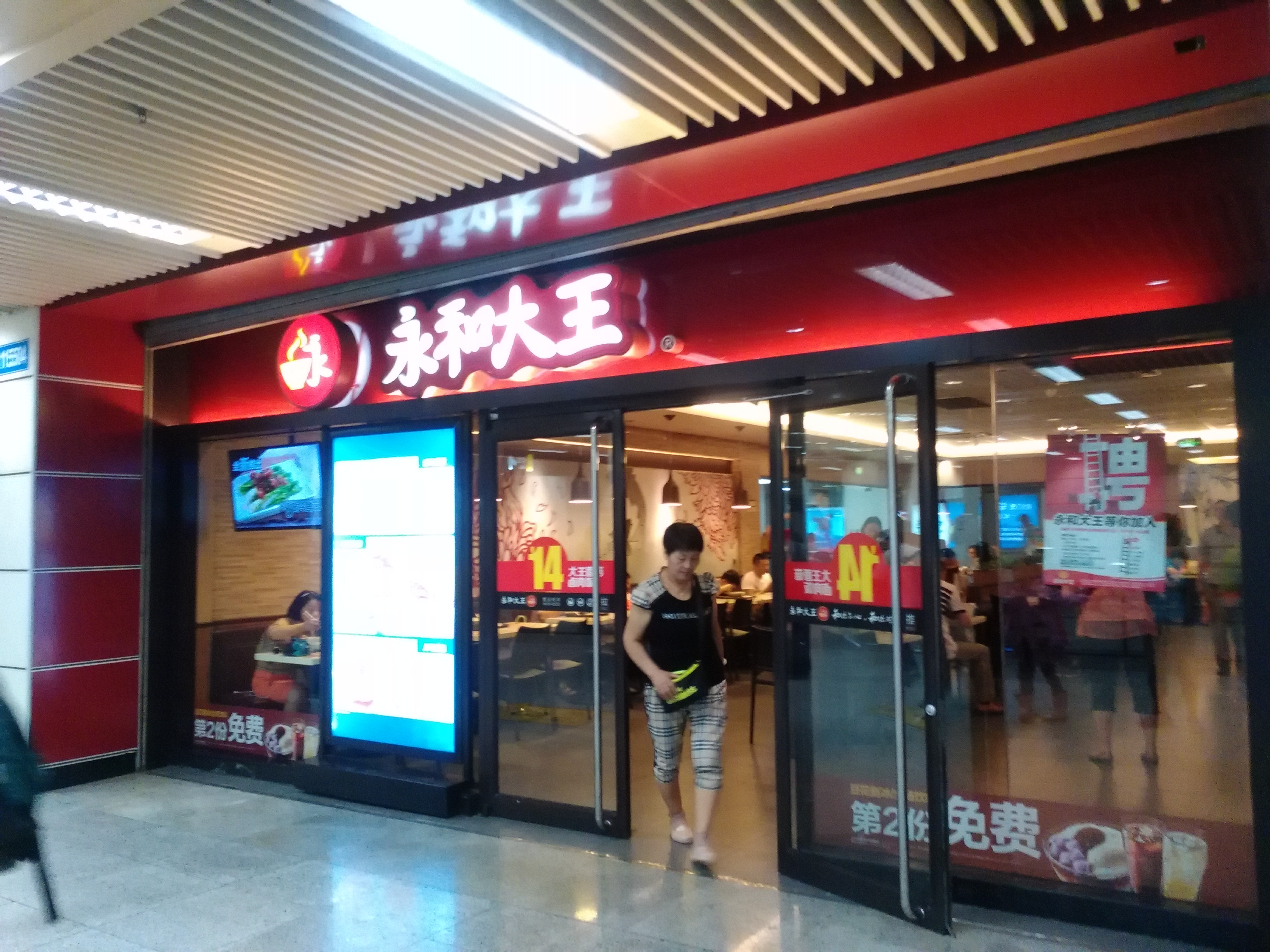 Yonge King, Shanghai